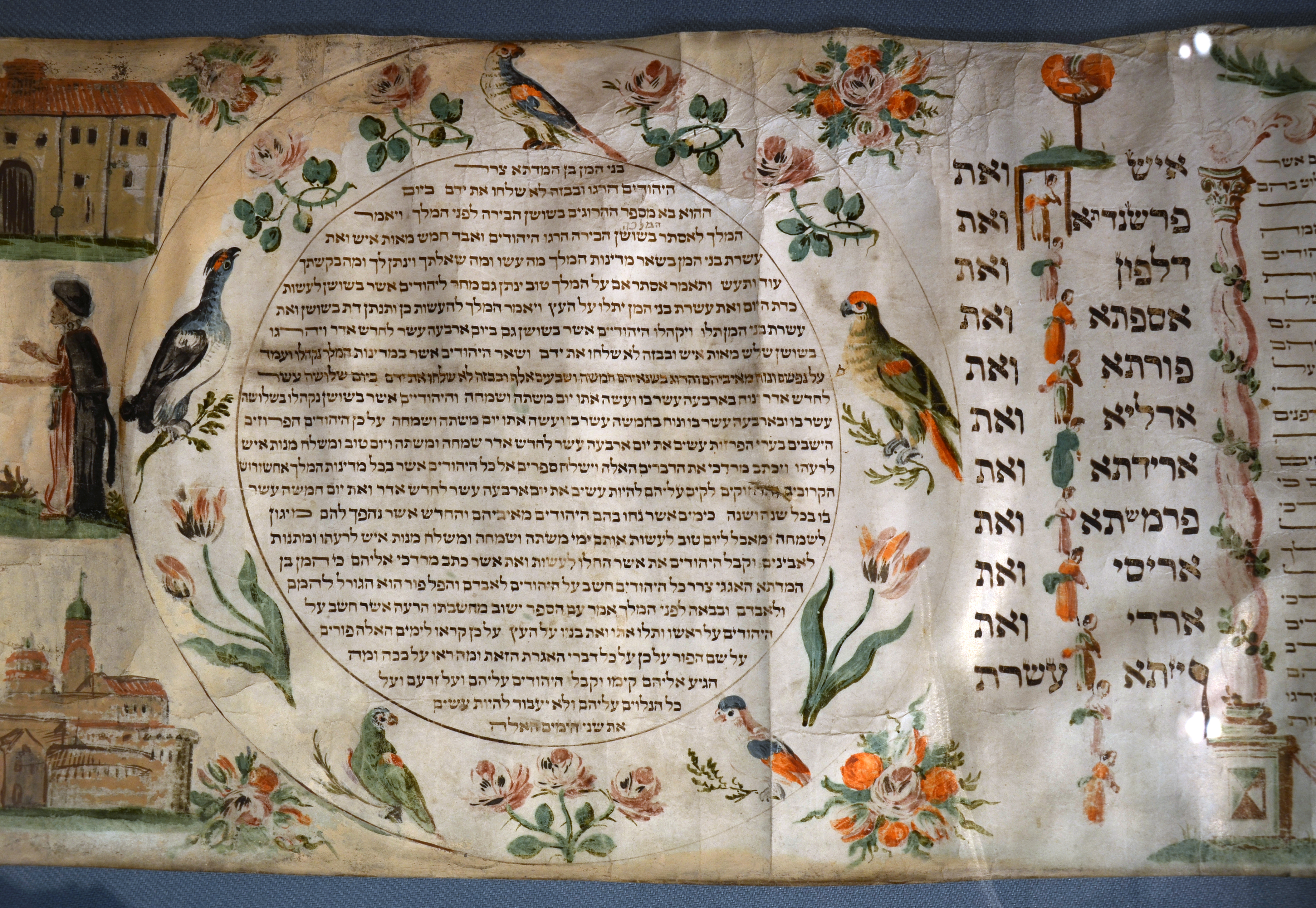 Book of Esther, written on a scroll ( megillah ) to be read on the festival of Purim. Parchment, from Alsace (?), 18th century. Now in the Joods Historisch Museum in Amsterdam.